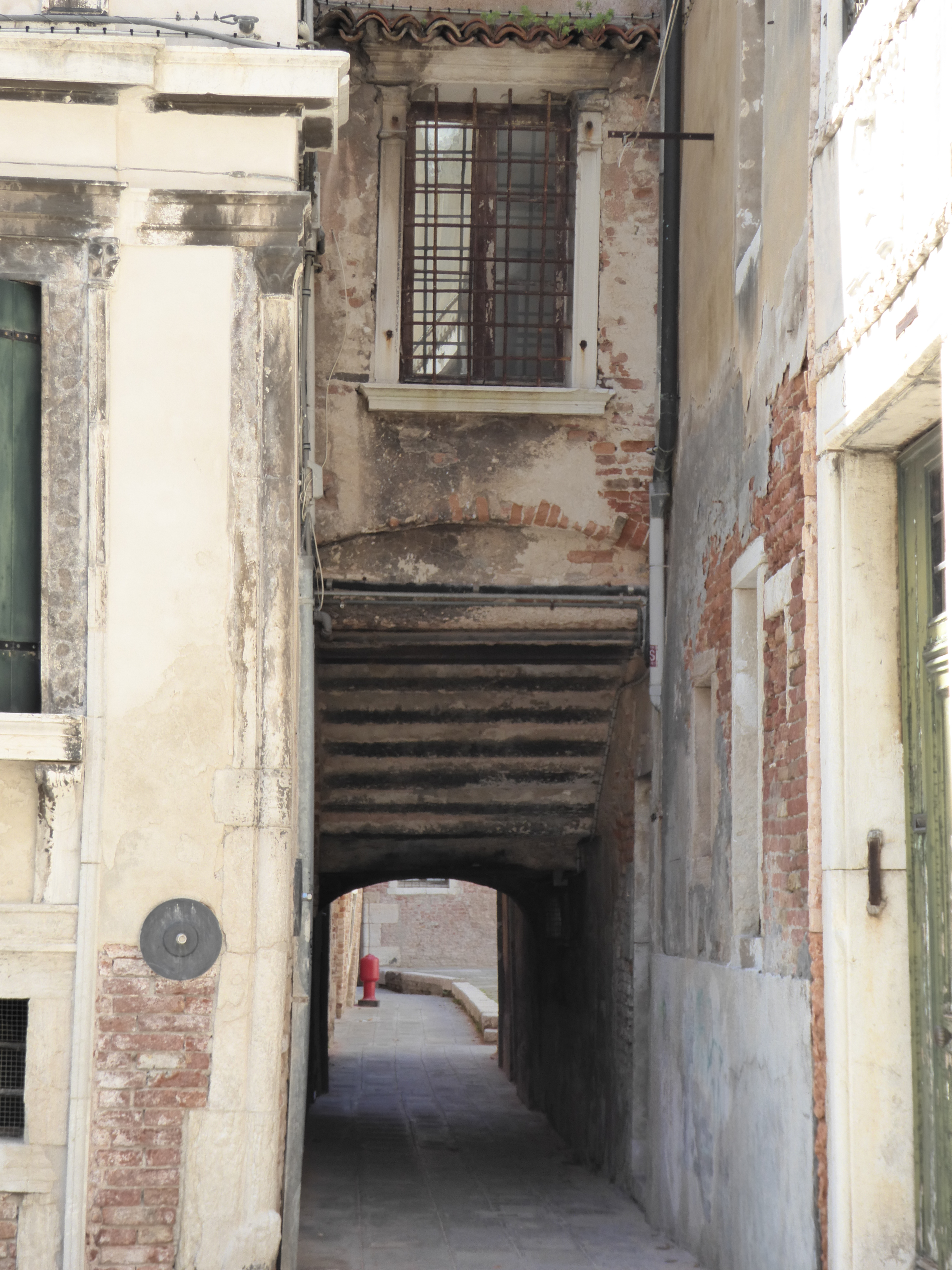 calle candele